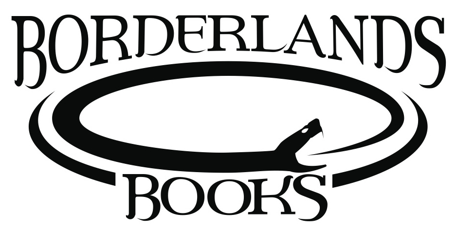 Logo for Borderlands Books in San Francisco